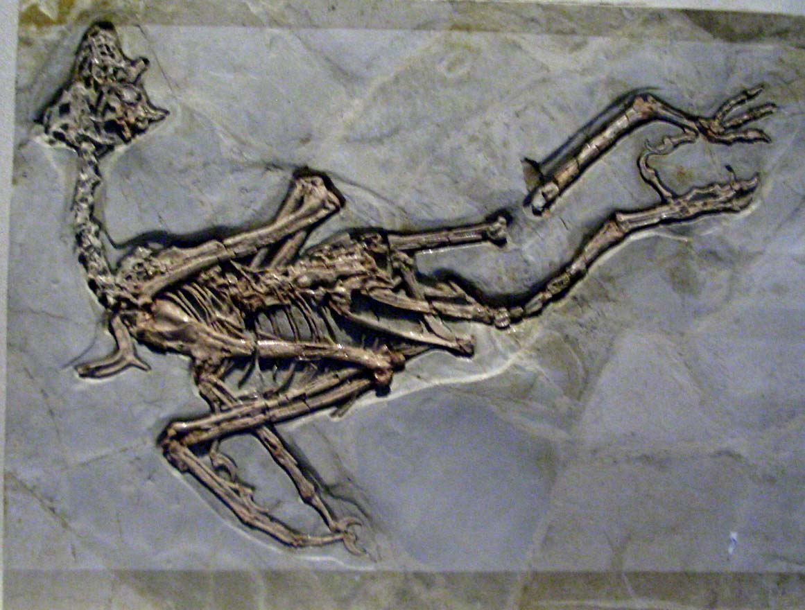 Sapeornis chaoyangensis fossil displayed in Hong Kong Science Museum